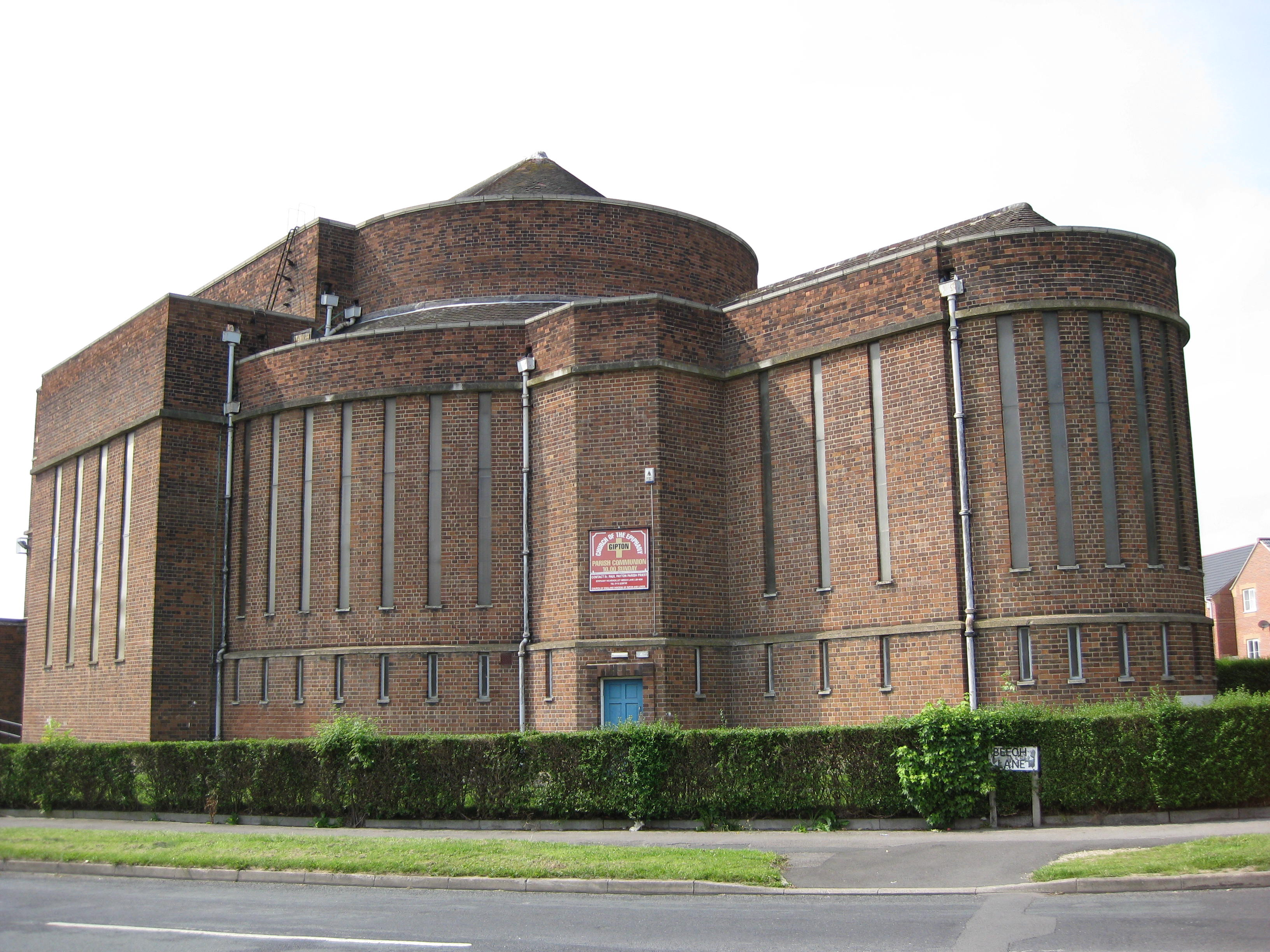 Parish church of the Epiphany, Beech Lane, Gipton, Leeds, West Yorkshire: designed by Nugent Cachemaille-Day and completed in 1938